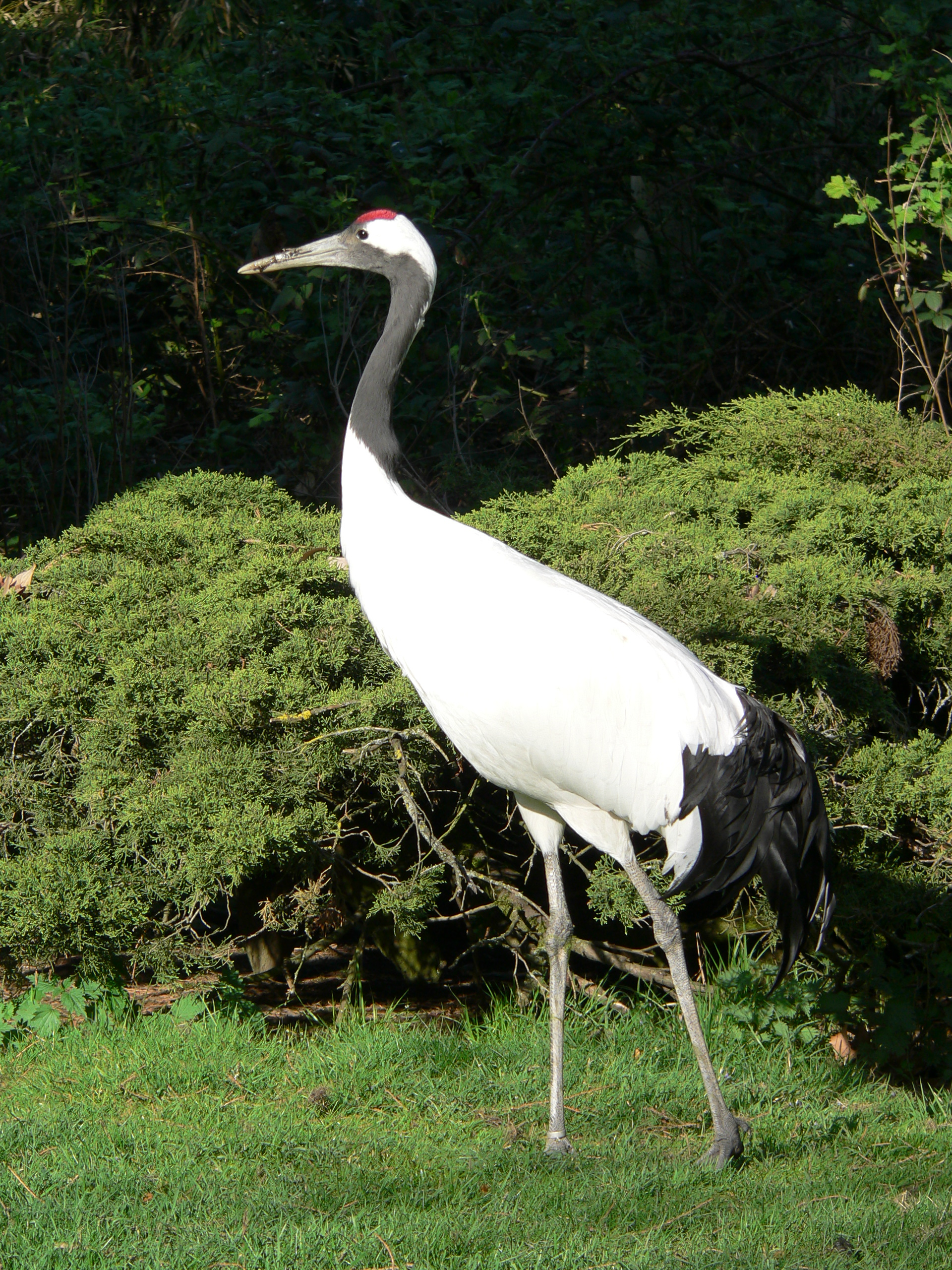 Grus japonensis